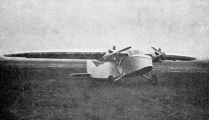 Albert A-20 photo from Annuaire de L'Aéronautique 1931